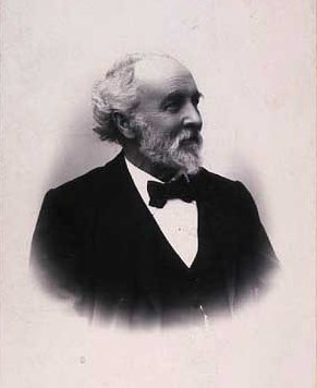 Bendix Conrad Heinrich Andersen von Nutzhorn (1833-1925), Danish composer